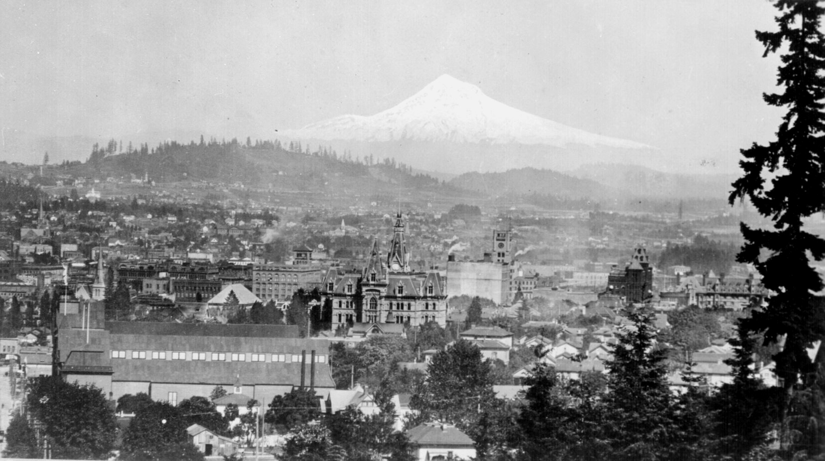 Panorama of Portland, Oregon, United States in 1890. Mount Hood in the background. In the center of the photo is the West Side High School, which was renamed Lincoln High School in 1909 and torn down (when the school moved to a new building) between 1928 and 1930.